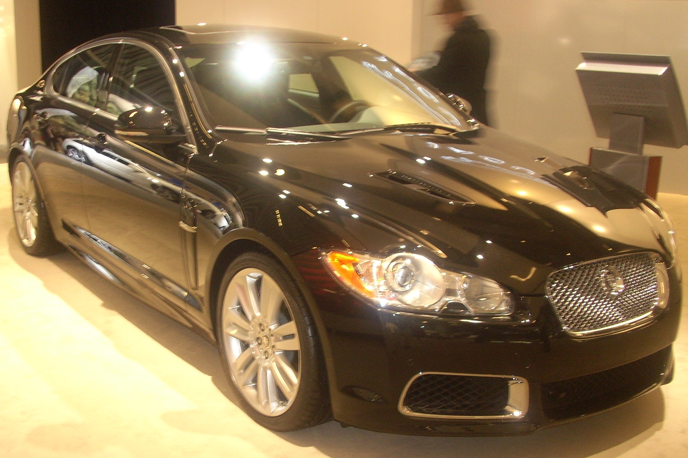 2010 Jaguar XFR photographed in Montreal, Quebec, Canada at the 2010 Montreal International Auto Show.